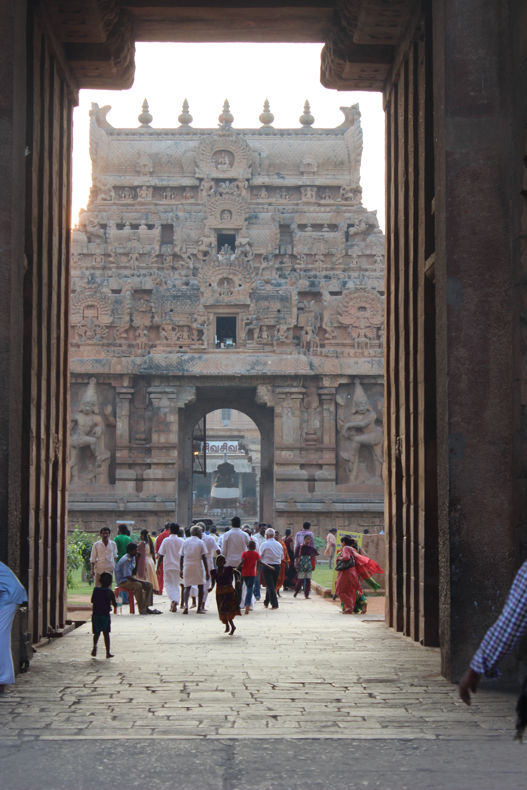 Thanjavur Brihadeeswara Temple Entrance